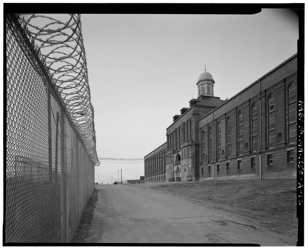 Deer Island House of Correction, Hill Prison, Deer Island, Boston, Suffolk County, MA